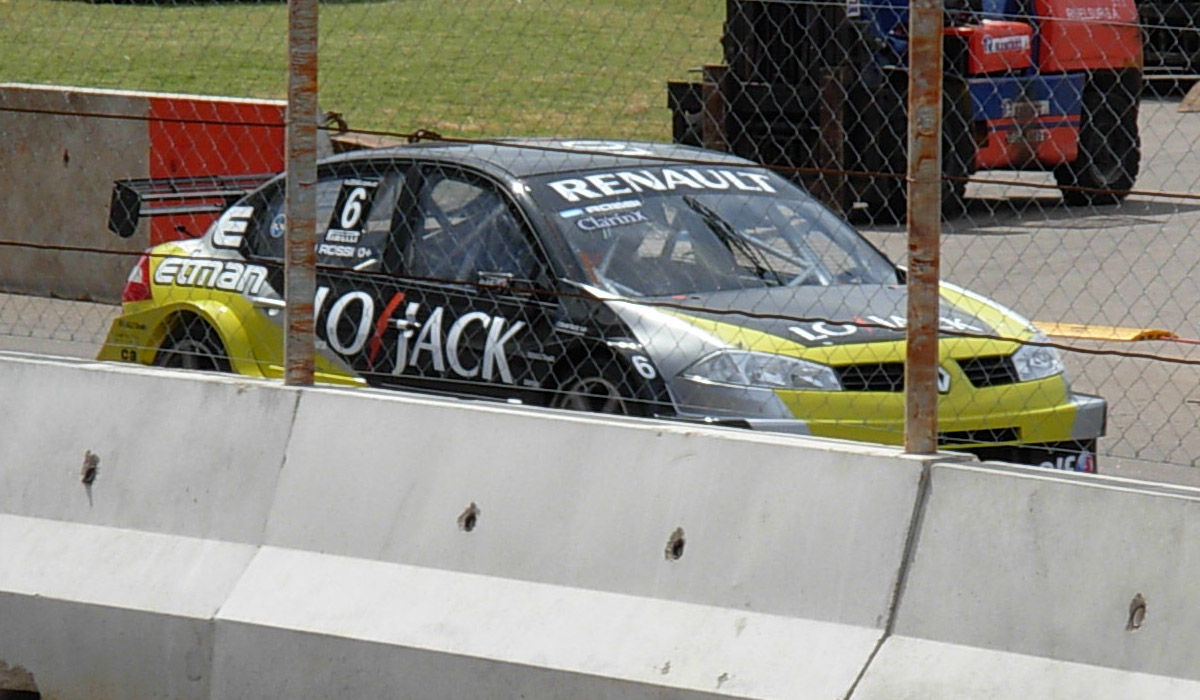 Matías Rossi's #6 TC2000 Renault Mégane at the 2010 Punta del Este Grand Prix.